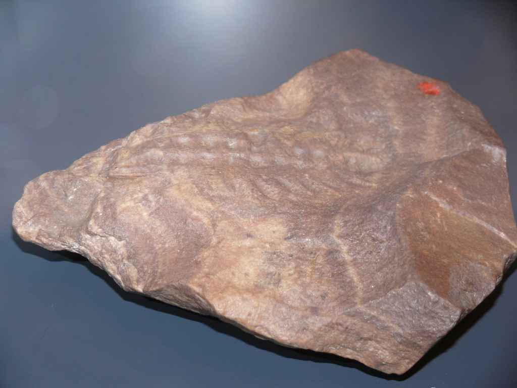 Xenusion auerswaldae, Museum of Natural History, Berlin